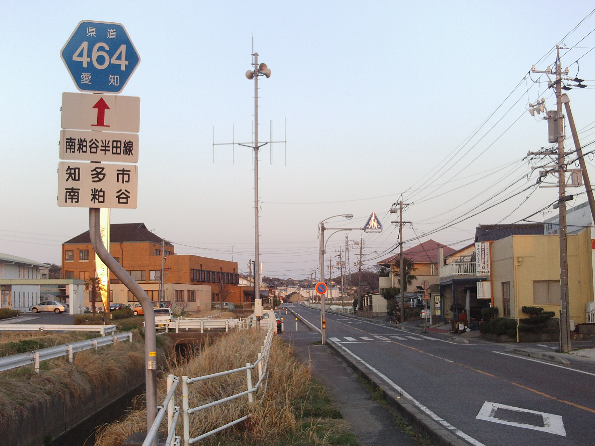 Aichi prefectural road No.464 in Minamikasuya, Chita, Aichi.